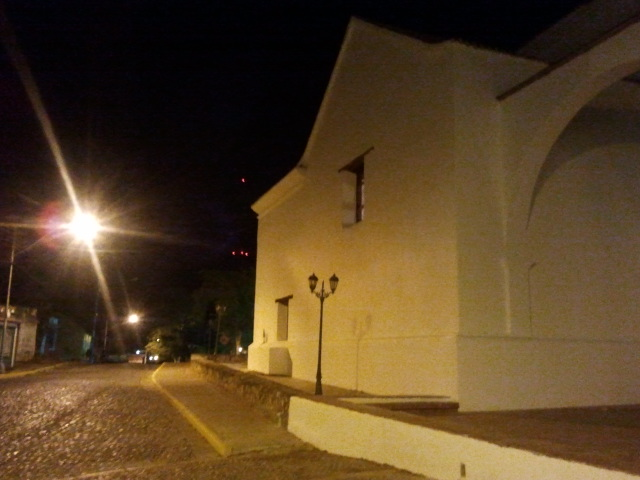 Street in Clarines at night